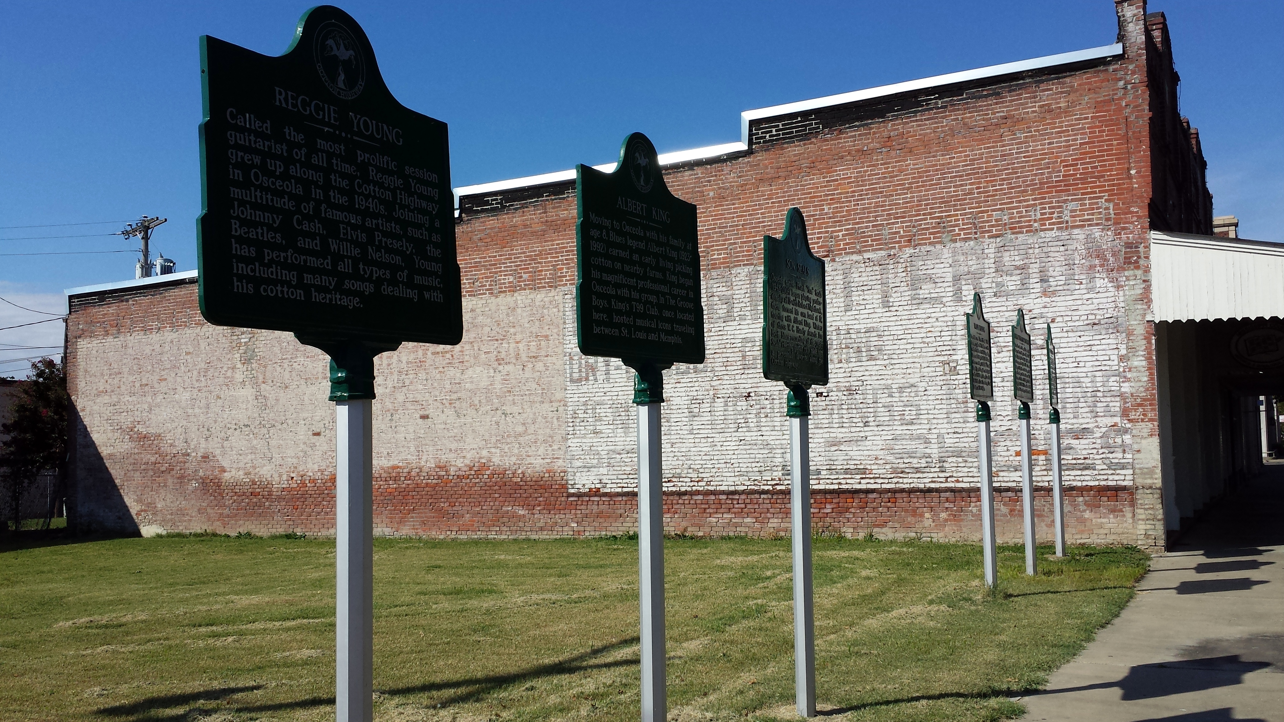 Historic markers near a stage in downtown Osceola, AR